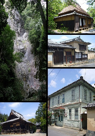 Fukusaki montage